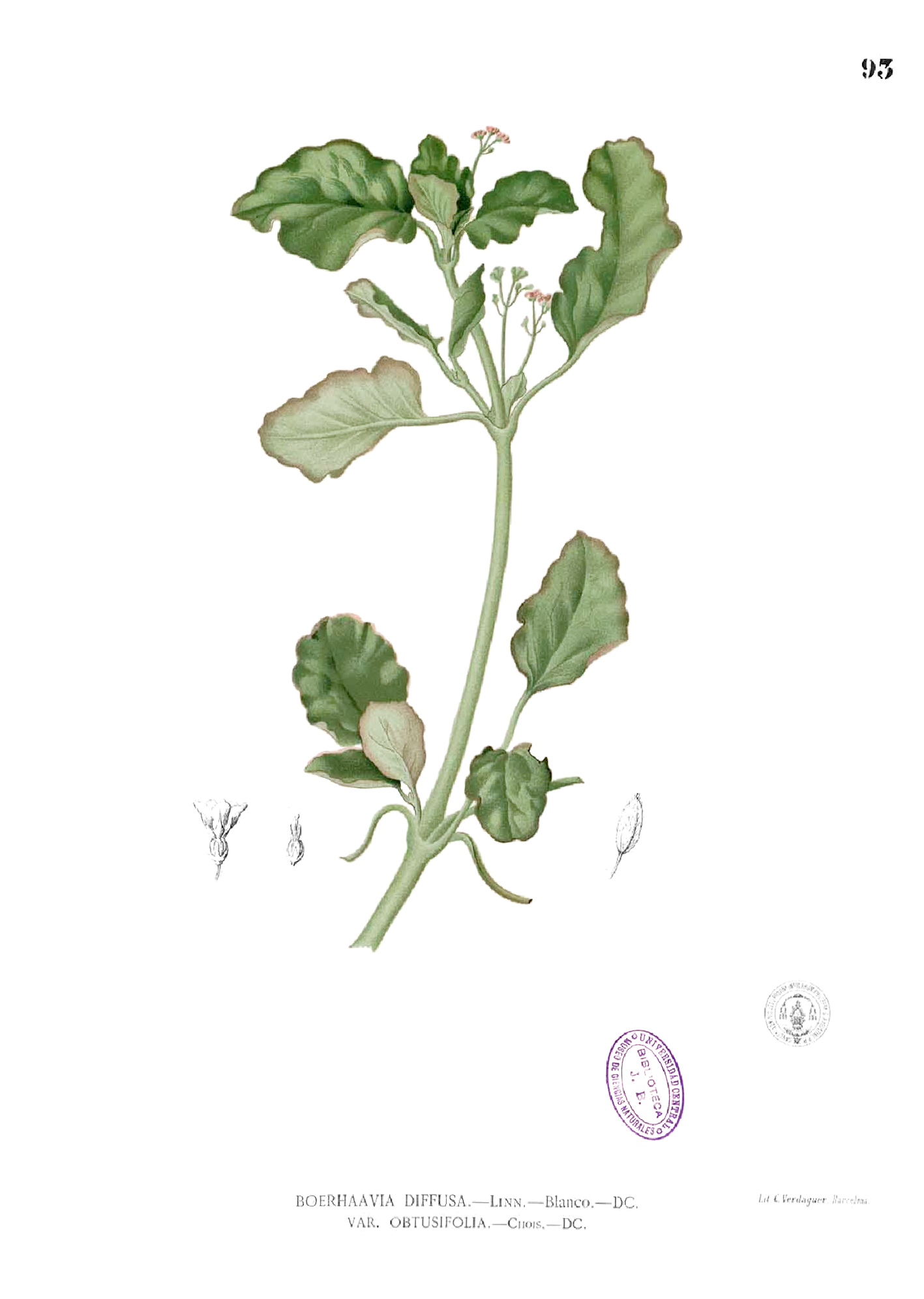 Plate from book